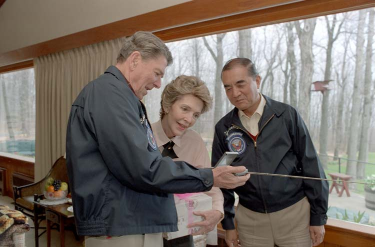 Yasuhiro Nakasone, Prime Minister, presented a portable television to Ronald Reagan, President, and Nancy Reagan at the Camp David in Thurmont Town, Frederick County, Maryland State on April 13, 1986.